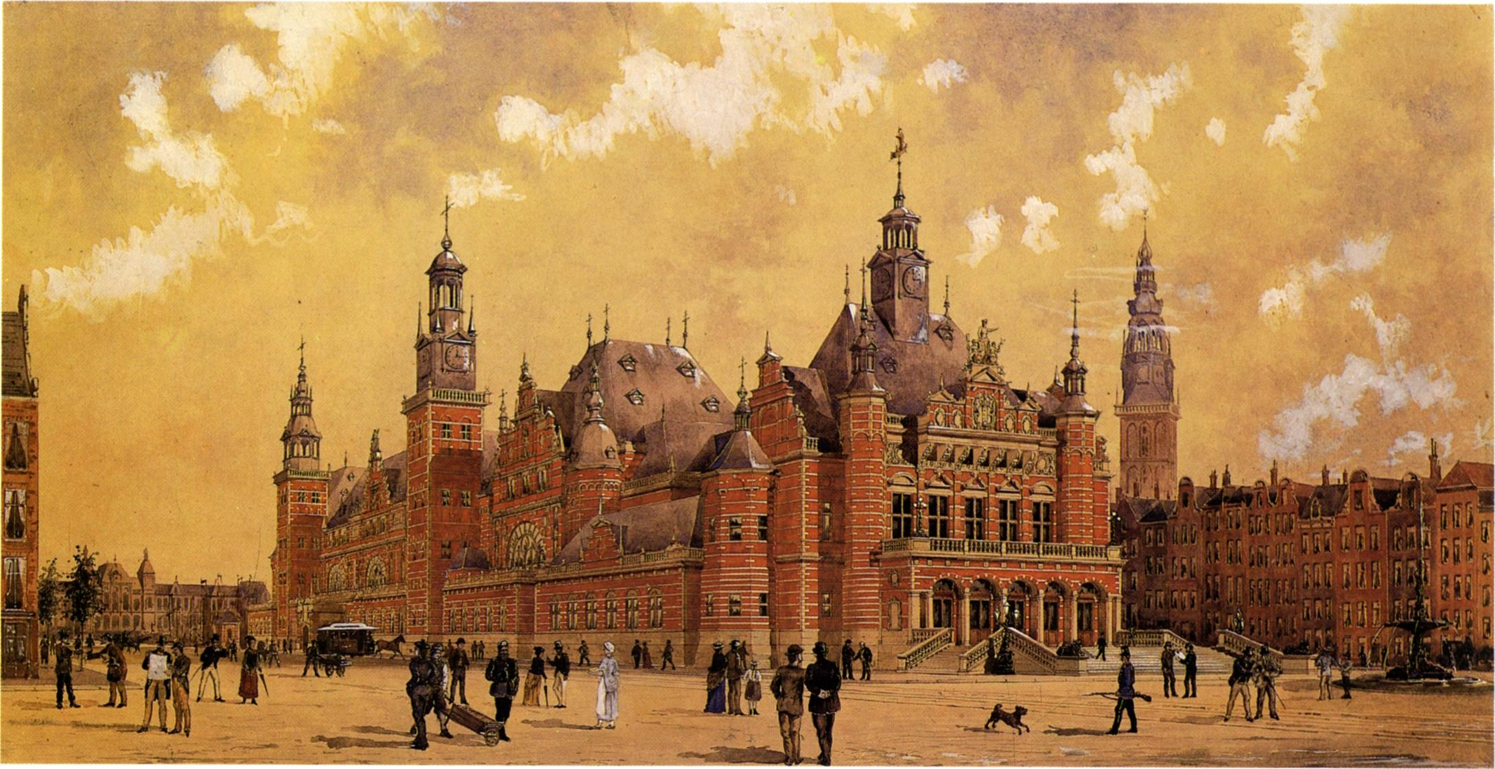 Competition design for a commodity exchange, Amsterdam. Motto: Mercaturae.